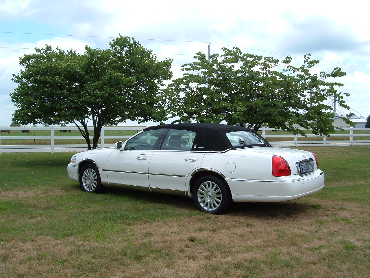 2003 Lincoln Town Car